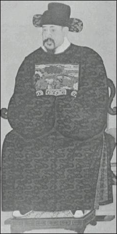 Portrait of Yi, San-hae, the leading Confucianist of the mid Joseon Dynasty.